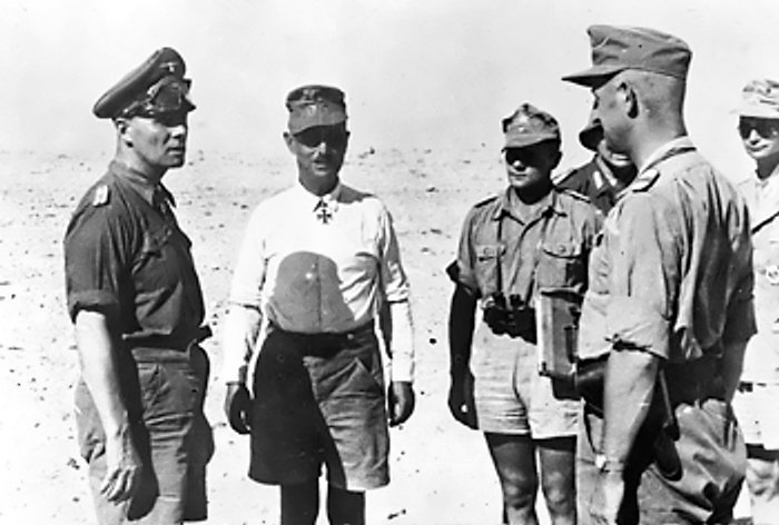 Rommel (left) at a staff conference in the Western Desert in 1942